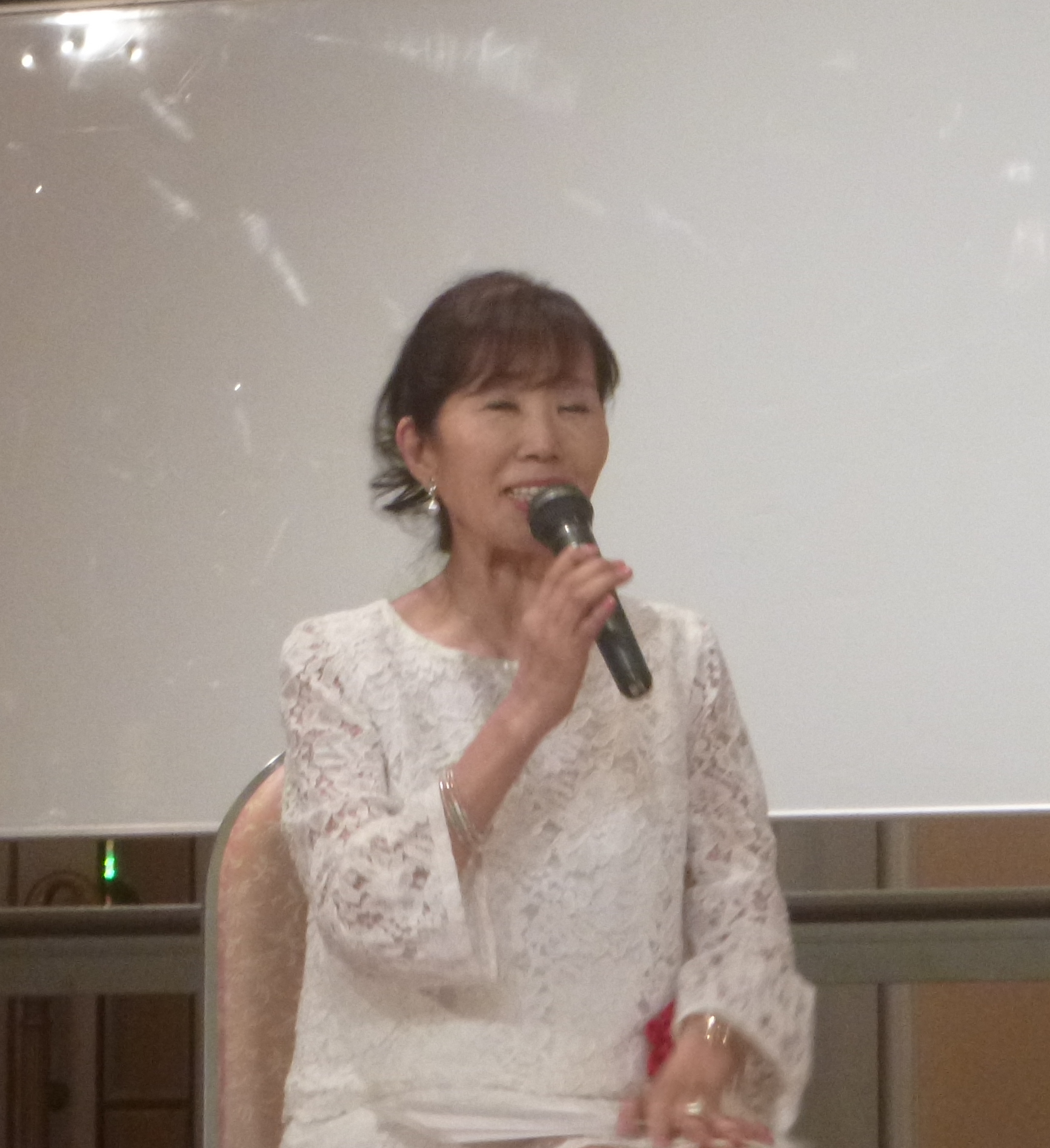 Japanese go player Tomoko Ogawa at the talk session of World Go festival in Takarazuka, Hyōgo, Japan.